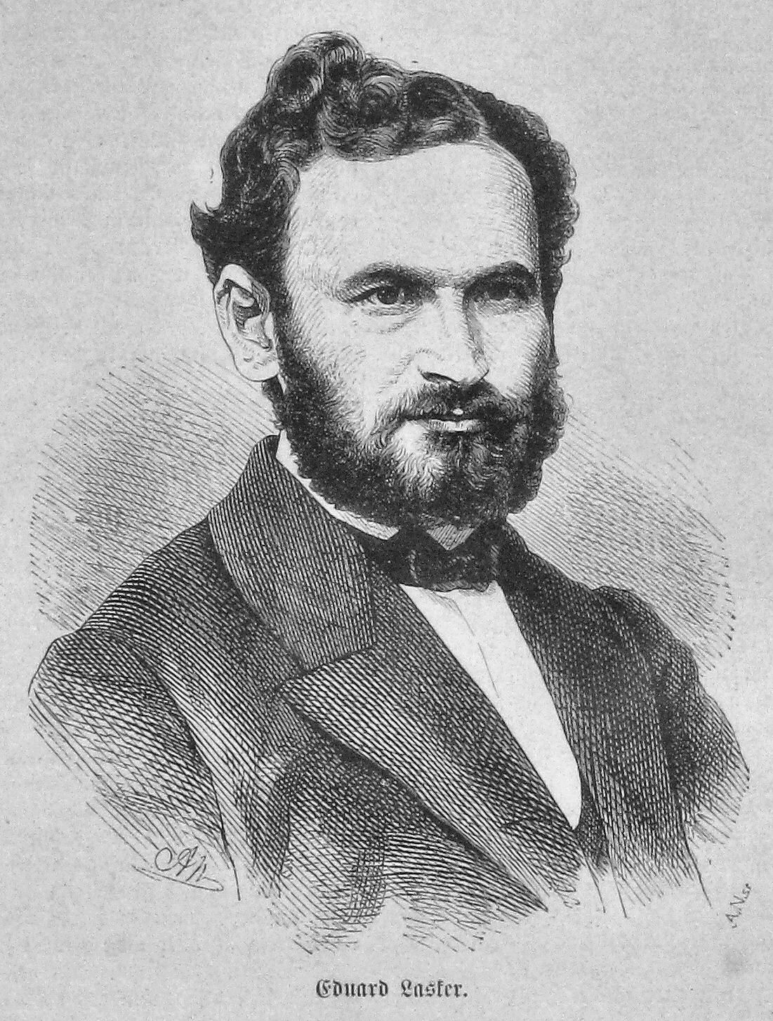 caption: "Eduard Lasker."